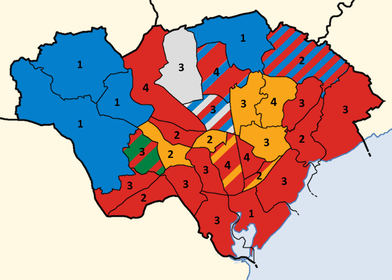 Results of the City of Cardiff Council election, May 2012, indicating numbers of councillors and their party affiliations Colours: Conservative Plaid Cymru Labour Liberal Democrat Independent Striped wards have mixed representation.